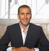 Tom Toumazis at a conference